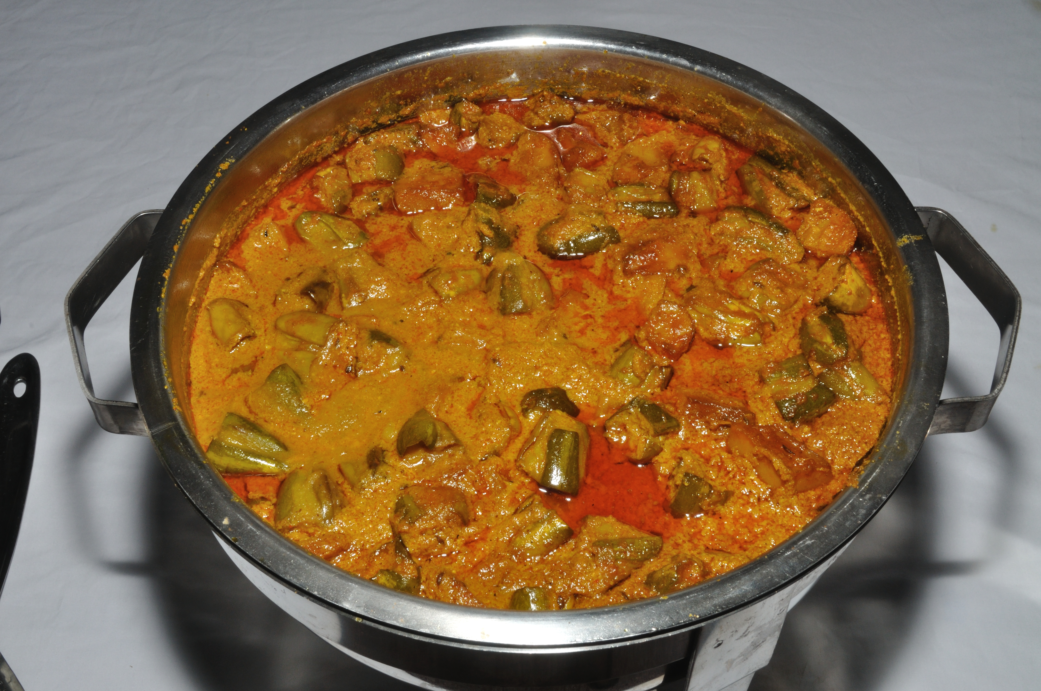 Food This media file is uploaded with India loves Wikipedia event.